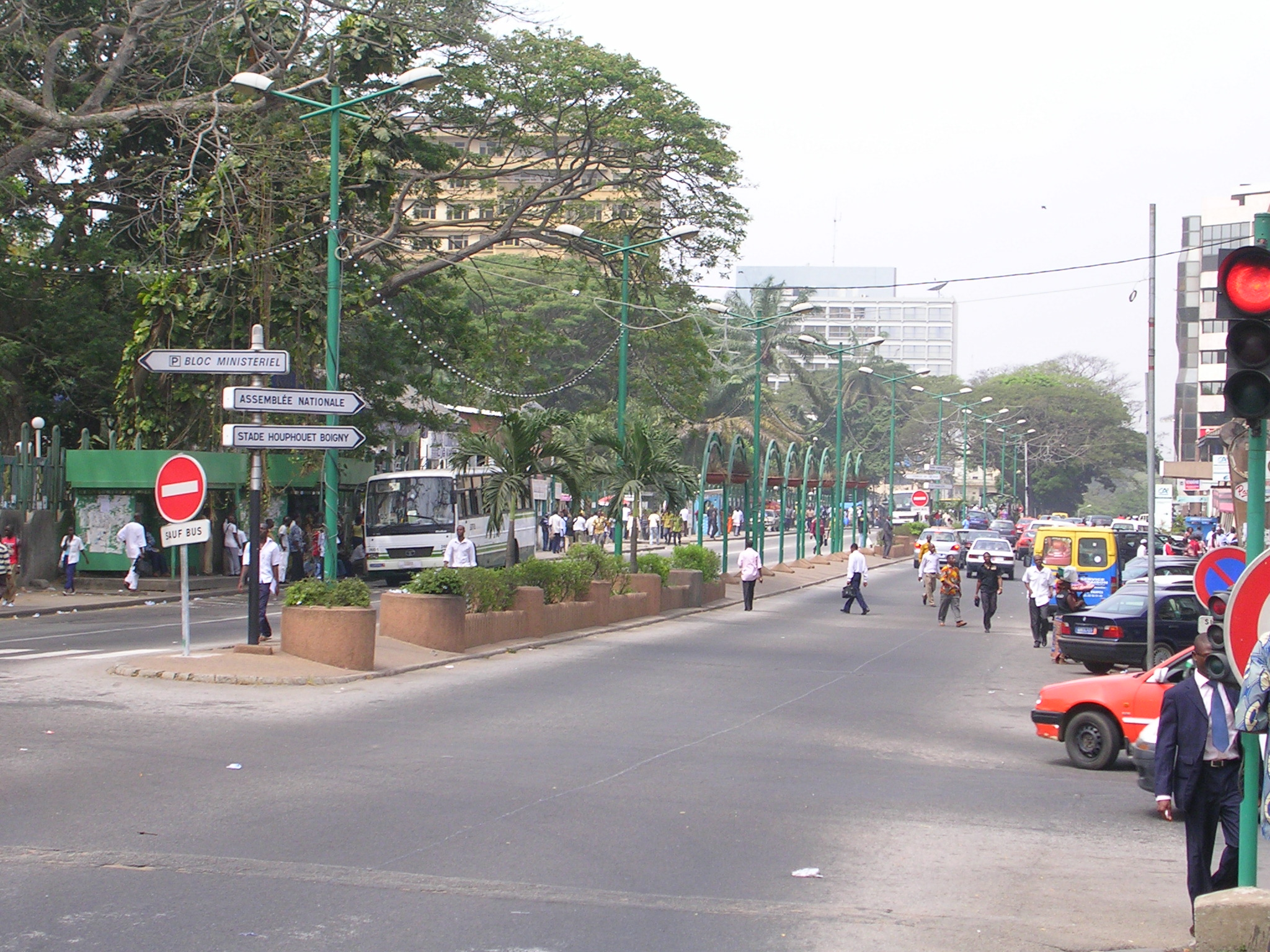 Abidjan. One of the streets, with trees, in the city. Côte d'Ivoire.